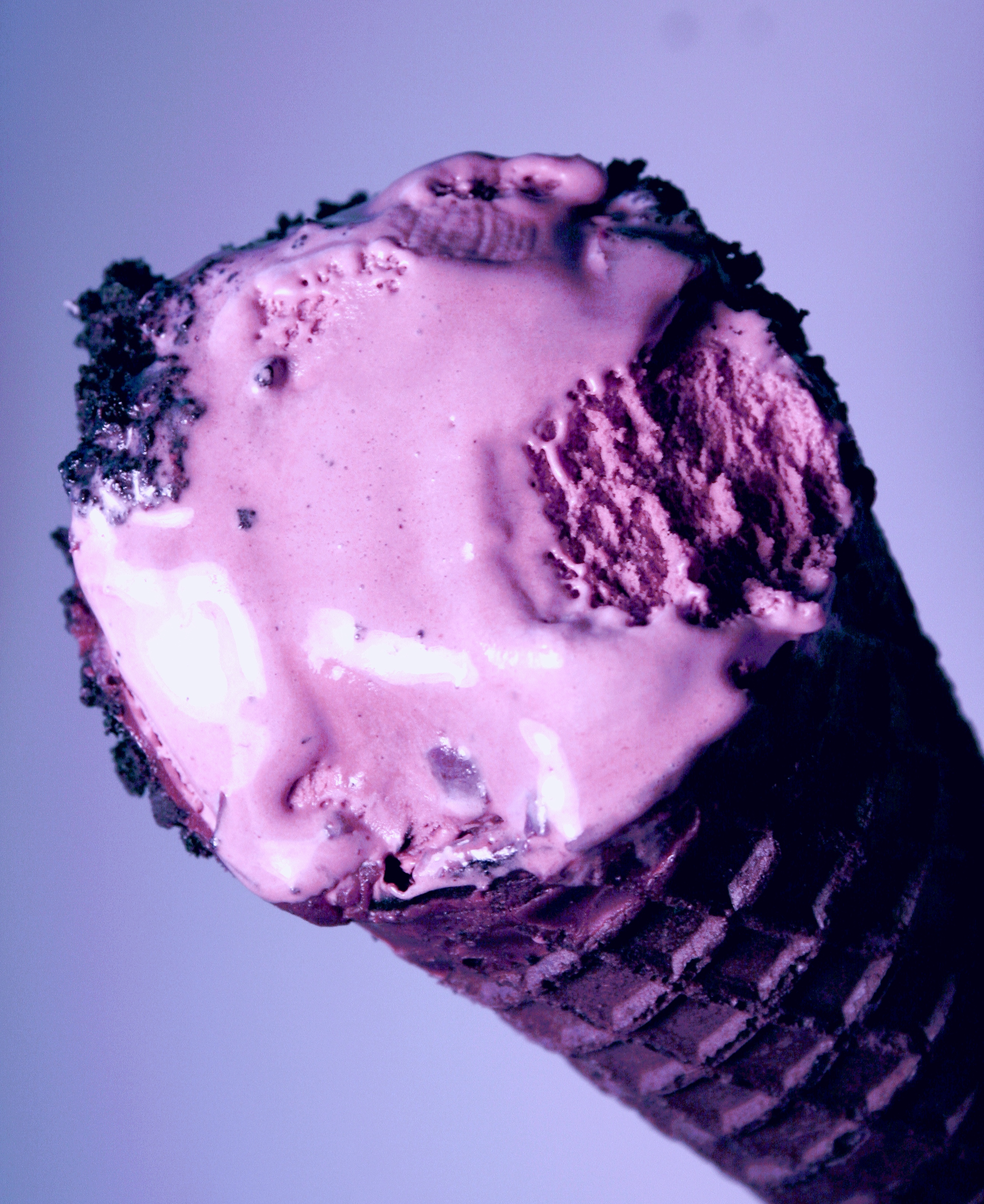 Click to SEE Pink Sherbet Photography on Getty Images! Photographer, D. Sharon Pruitt Owner of Pink Sherbet Photography Official Website, Contact Email